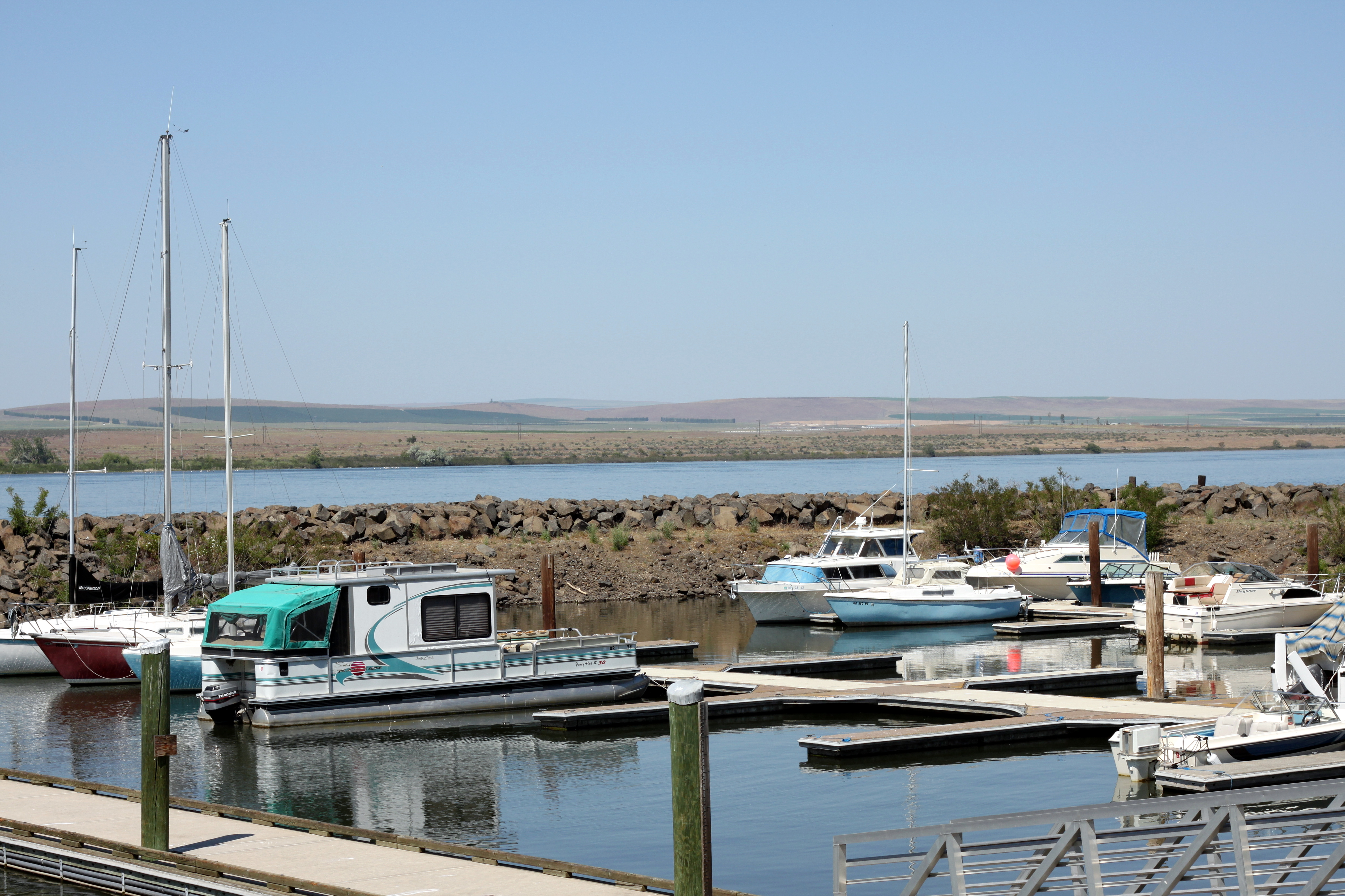 Boats and the Columbia River in the Irrigon, Oregon marina